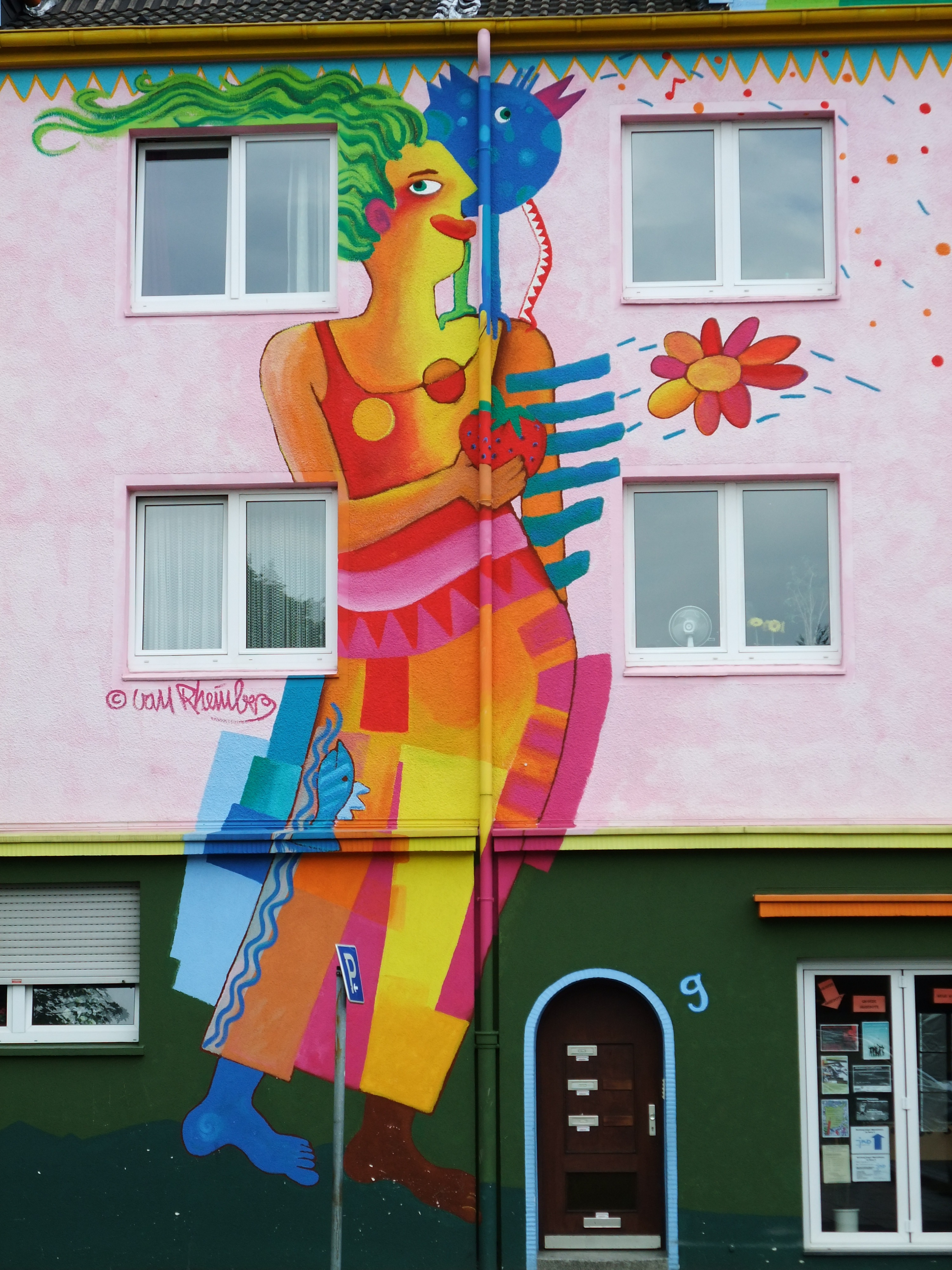 Mural at „Storp9 - Haus für Bildung und Kultur“, Essen, Germany (Design: Moni van Rheinberg)